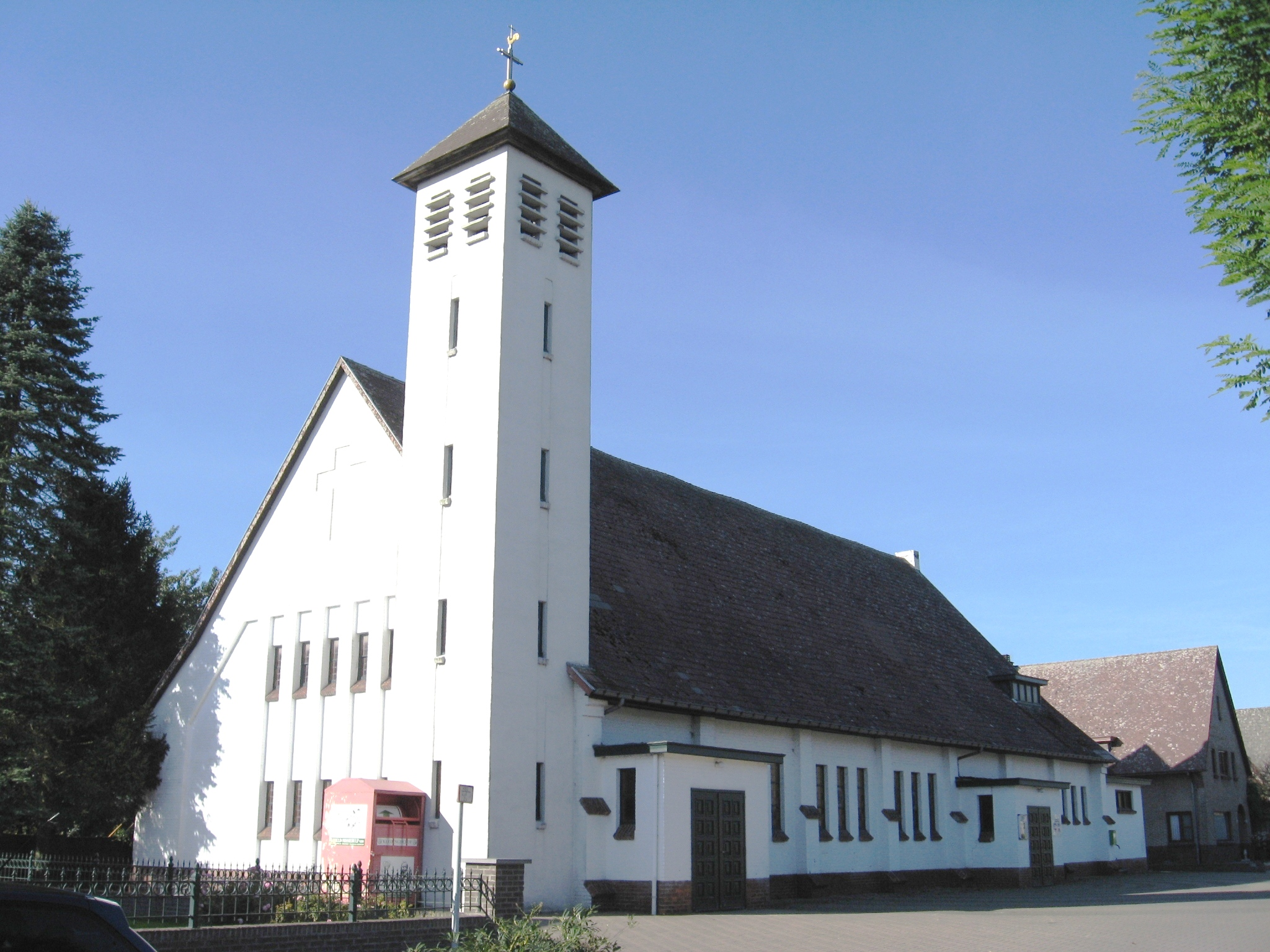 Church of the Blessed Virgin Mary in Lommel (Lutlommel), Limburg, Belgium